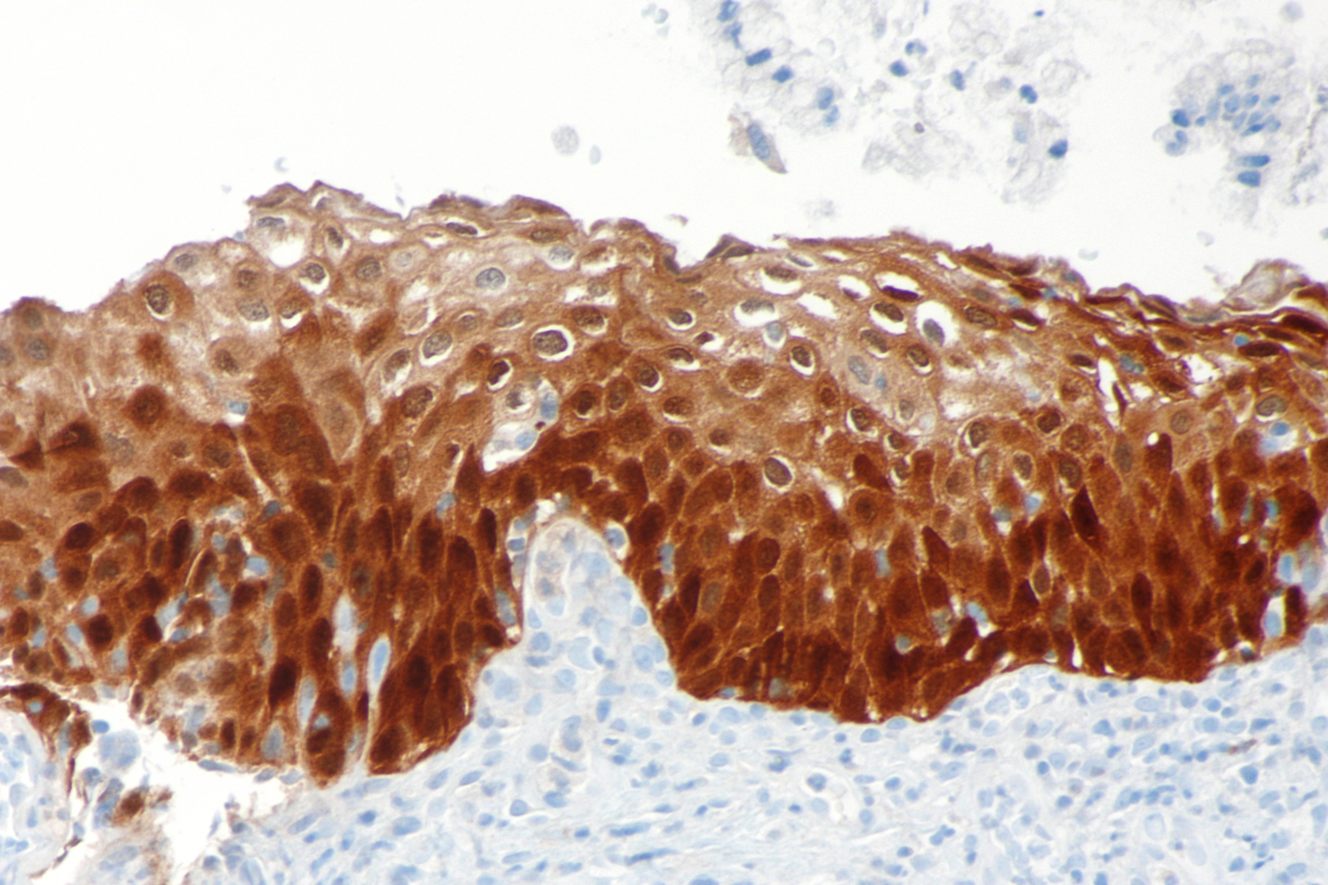 Micrograph showing a high grade squamous intraepithelial lesion in a cervical biopsy. H&E stain/p16 IHC/p63 IHC/Ki-67 IHC. Related images HSIL - intermed. mag. HSIL - high mag. HSIL - very high mag. HSIL - intermed. mag. HSIL - high mag. HSIL - intermed. mag. HSIL - high mag. HSIL - intermed. mag. HSIL - high mag.